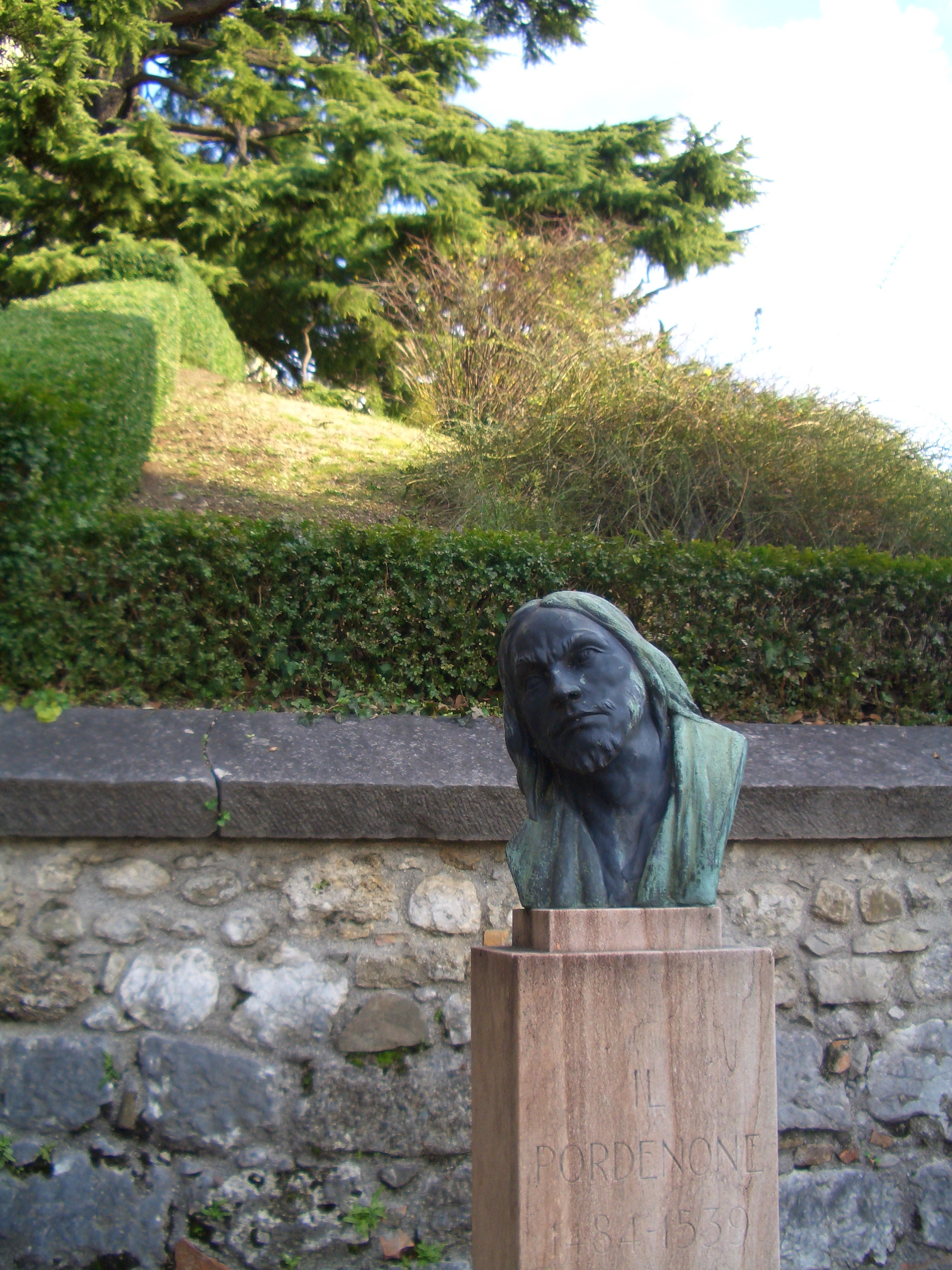 Description: Büste des Malers Pordenone (1484-1539) am Aufgang zum Castello von Udine Source: selbst fotografiert Date: 8.12.2005 Author: Sandro Schachner Permission: Creative Commons Attribution ShareAlike 2.5 Other versions of this file